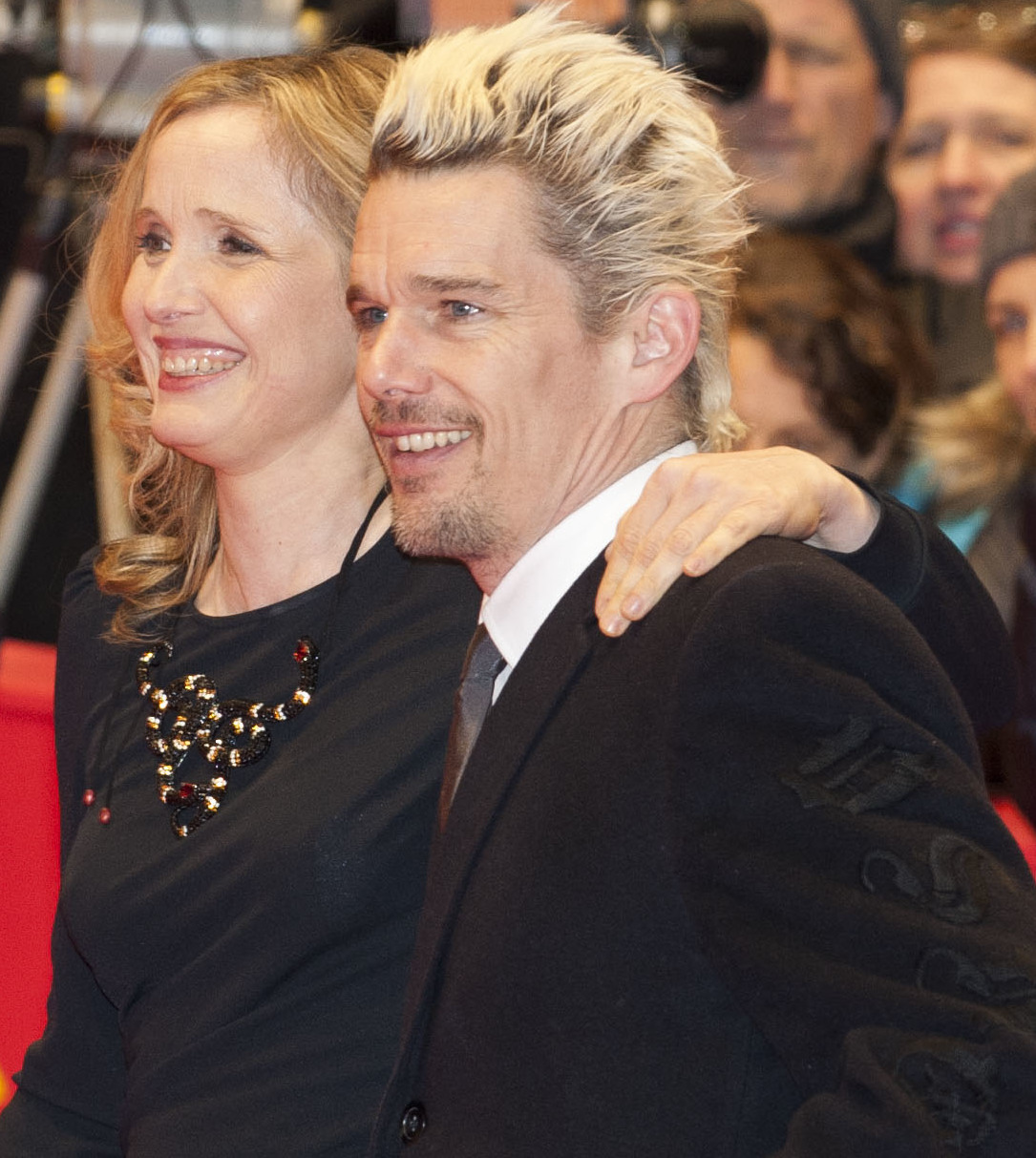 Julie Delpy and Ethan Hawke, red carpet for the premiere of "Before Midnight"